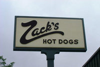 This is a picture of the sign at Zack's Hotdogs